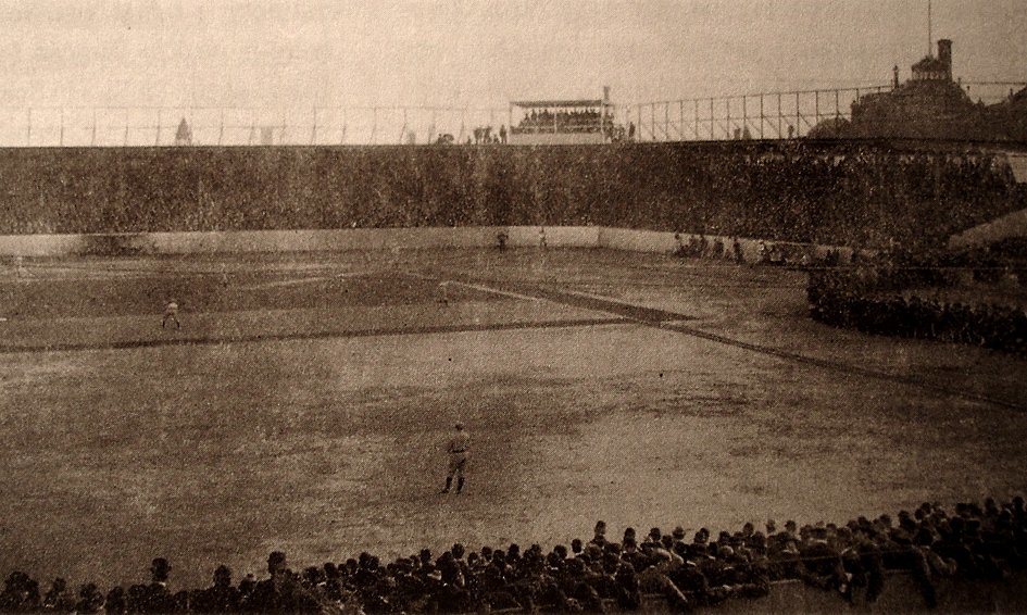 Columbia Park in Philadelphia during a 1907 game.